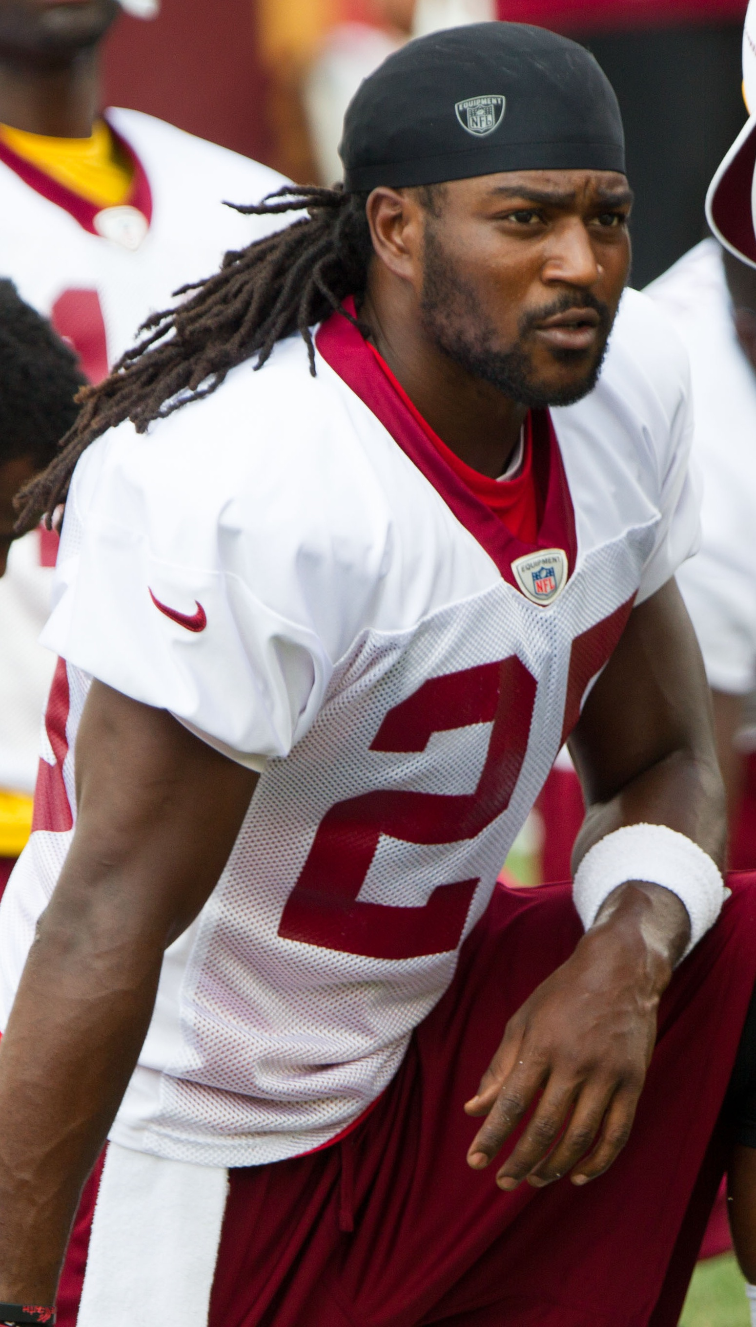 Tim Hightower at Washington Redskins Training Camp August 2, 2012